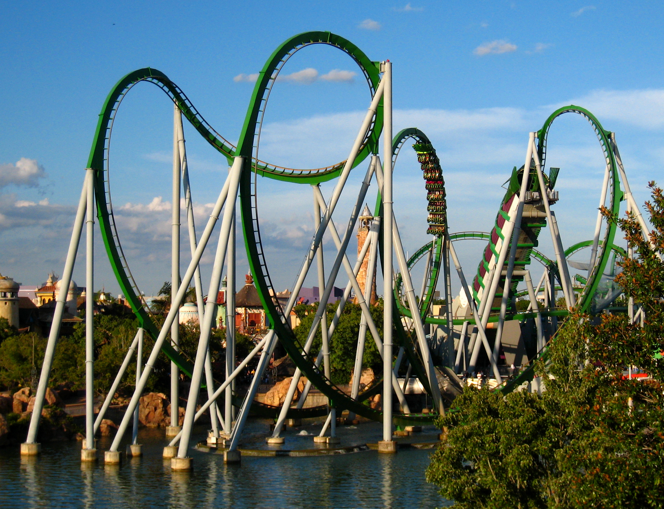 The Incredible Hulk Coaster, Islands of Adventure, Florida